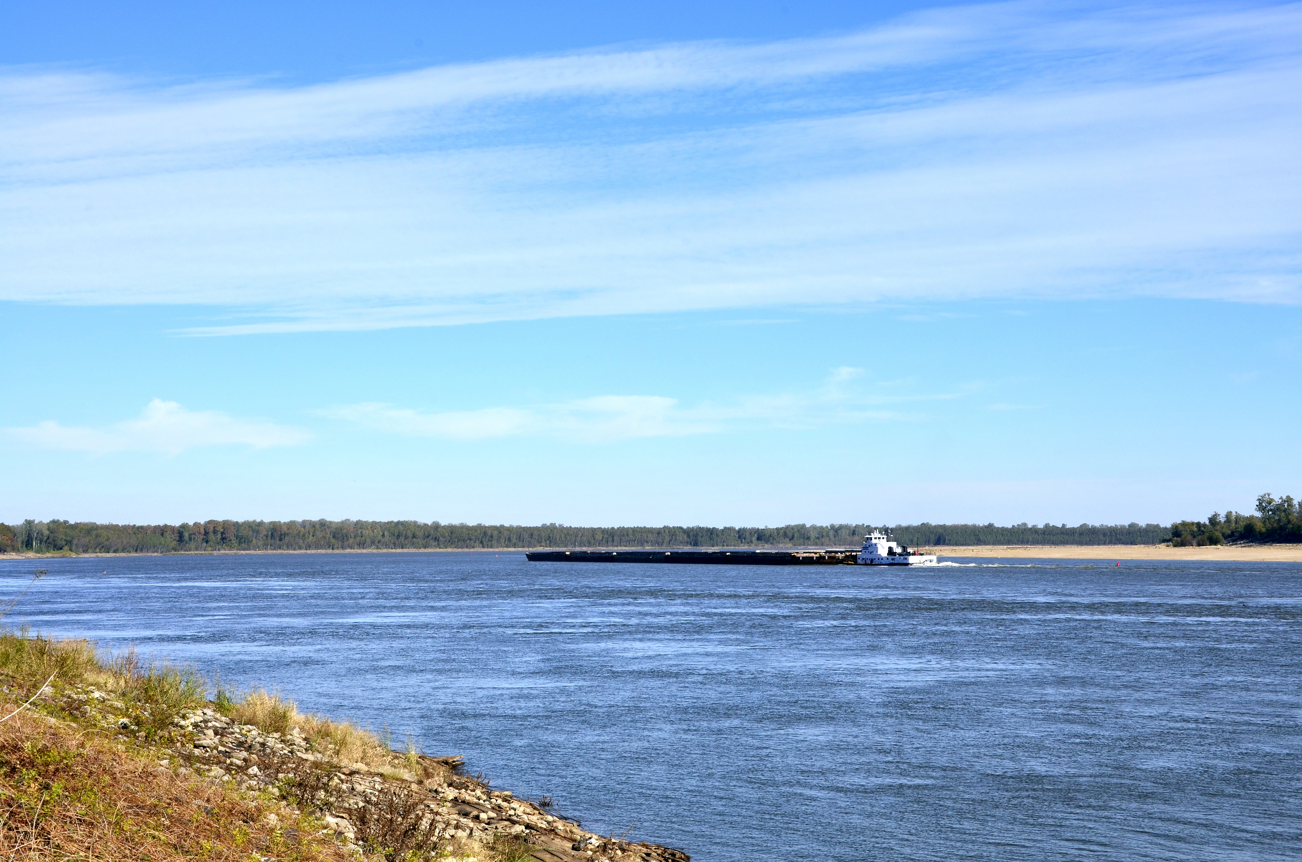 Looking north on the Mississippi River from the former location of Eunice, Arkansas.